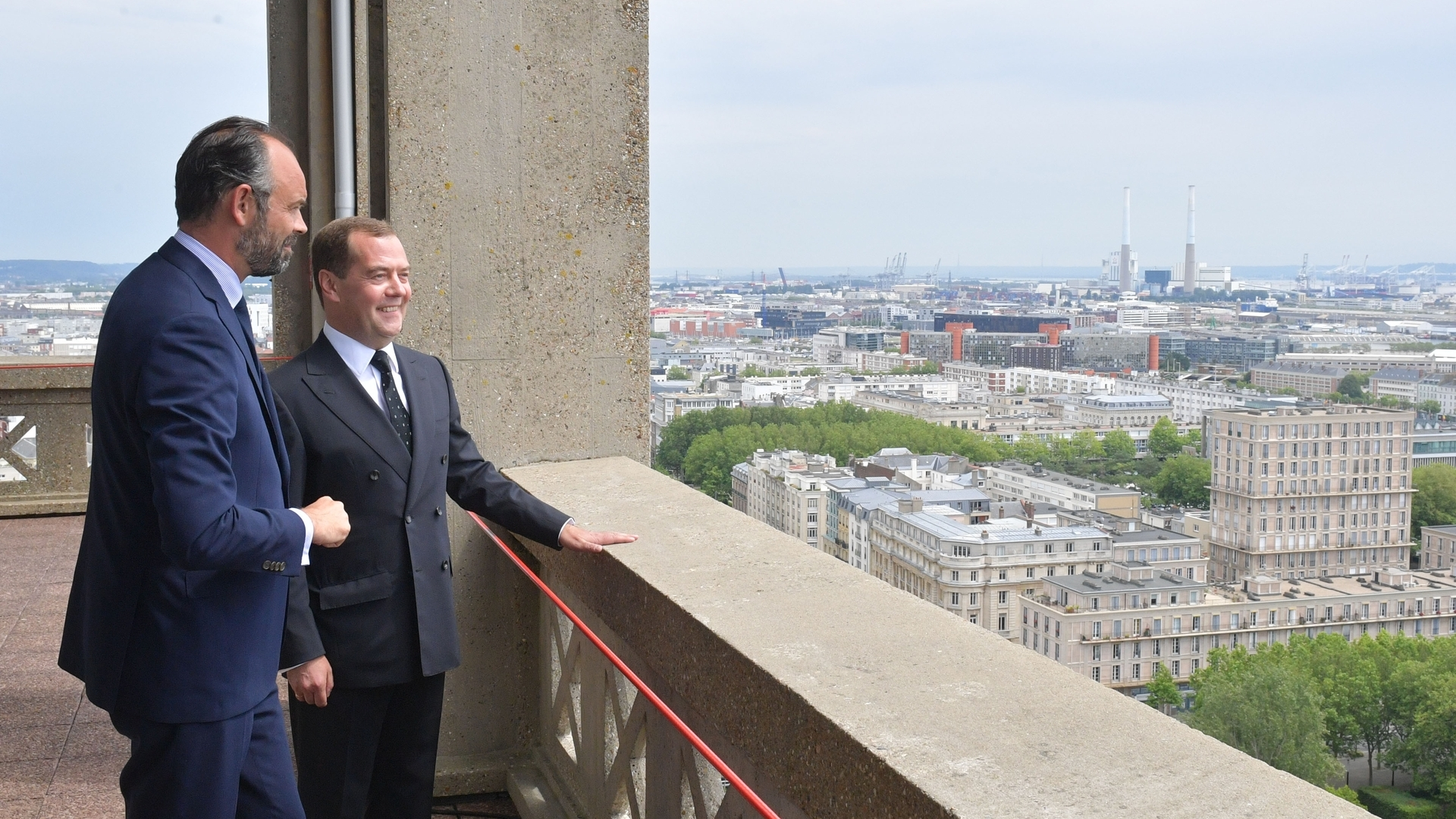 Russian Prime Minister Dmitry Medvedev and French Prime Minister Édouard Philippe in Le Havre on 24 June 2019